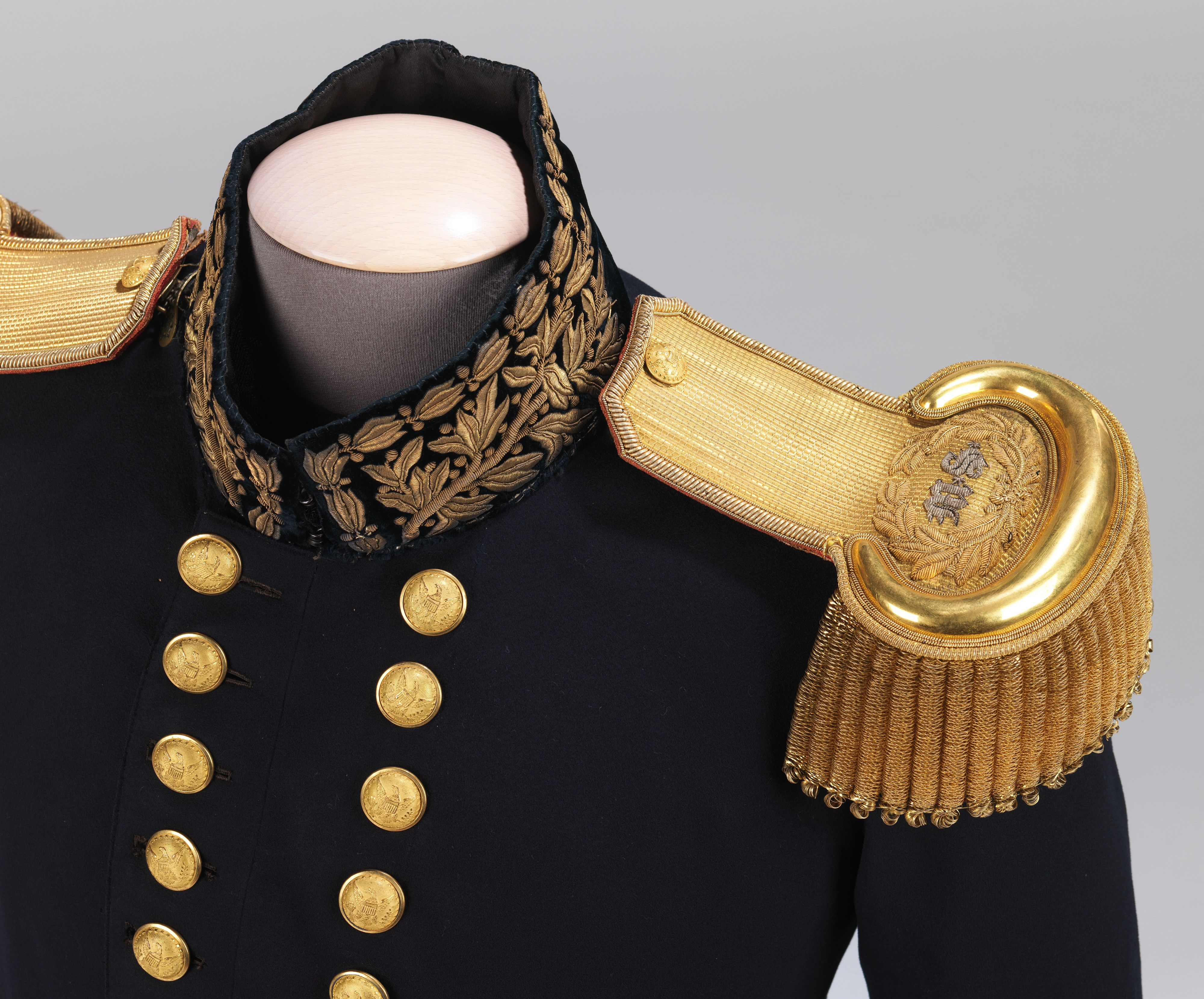 British; Military Jacket